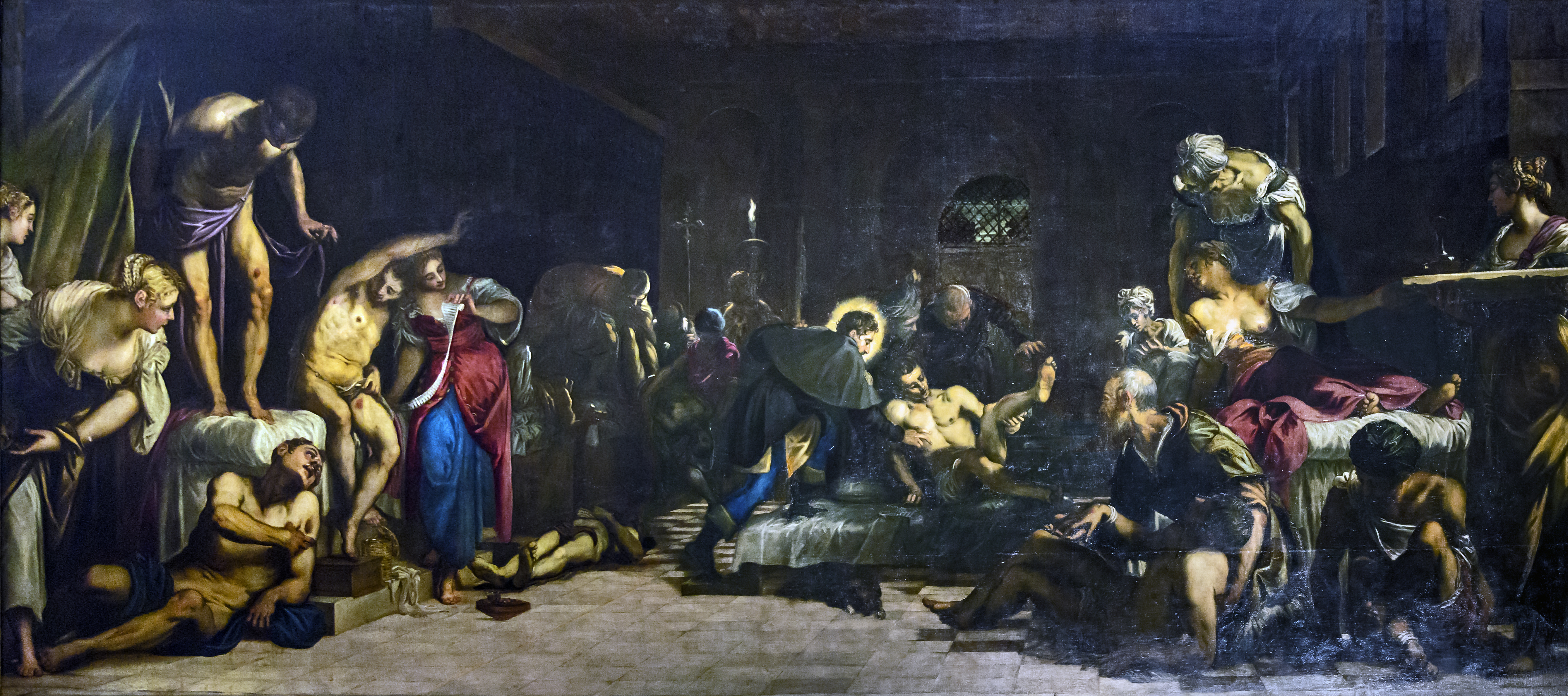 Church of San Rocco in Venice. Saint Roch heals pestiferous by Il Tintoretto (1559). oil on canvas Height: 307 cm (120.9 in). Width: 673 cm (265 in).